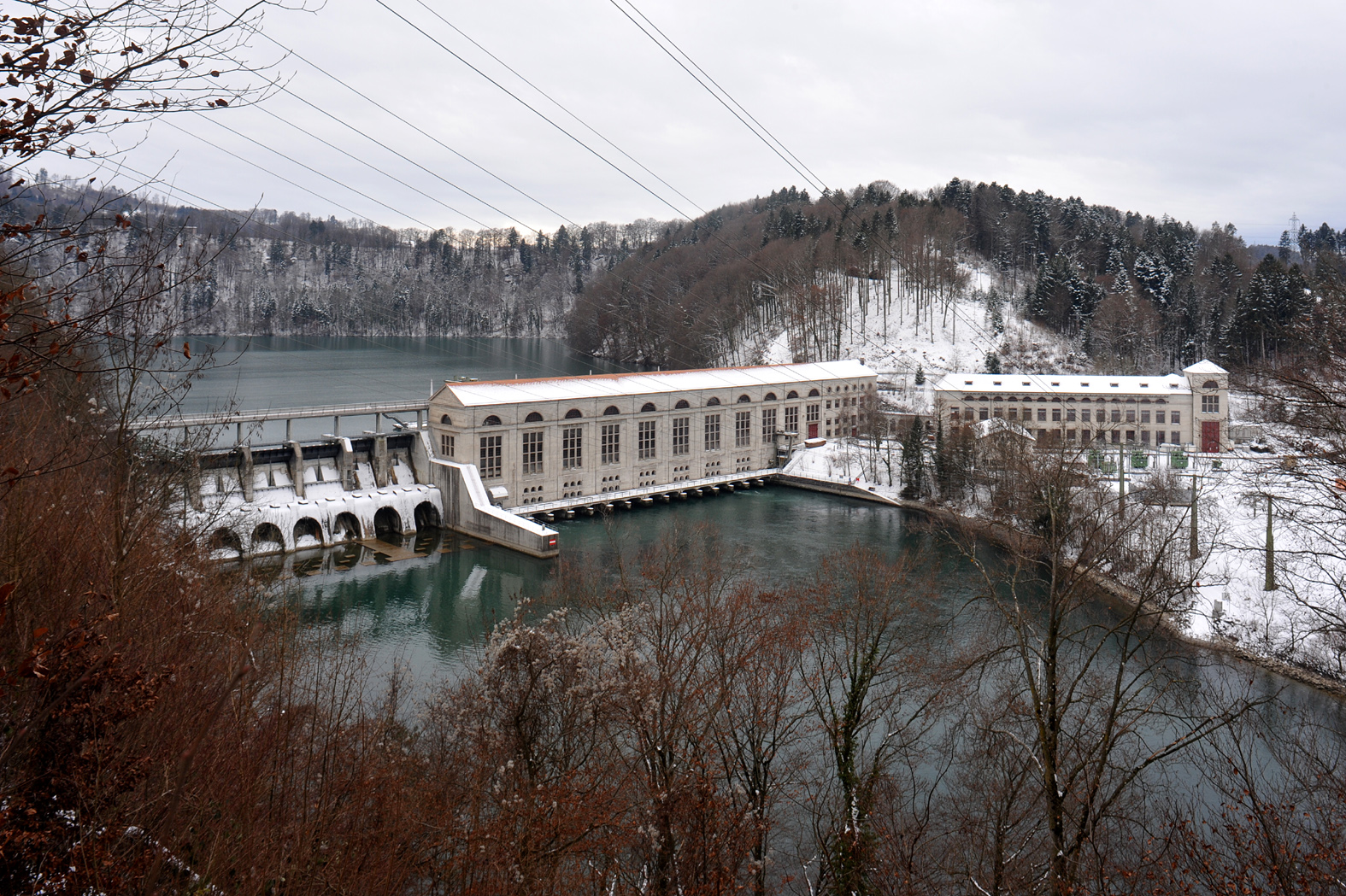 Hydroelectric power station Mühleberg; Berne, Switzerland.